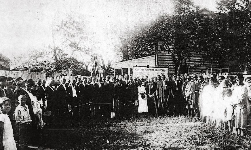 A building dedication ceremony for the First Baptist Church of Deanwood located at 1008 45th Street, NE in Washington, D.C. The congregation quickly outgrew their sanctuary. Construction of their second building began in 1929 and lasted nine years. It was designed by Roscoe I. Vaughn in a modified Gothic style. A larger, adjoining sanctuary was built in 1962. In July of 2008, the First Baptist Church of Deanwood was added to the National Register of Historic Places.